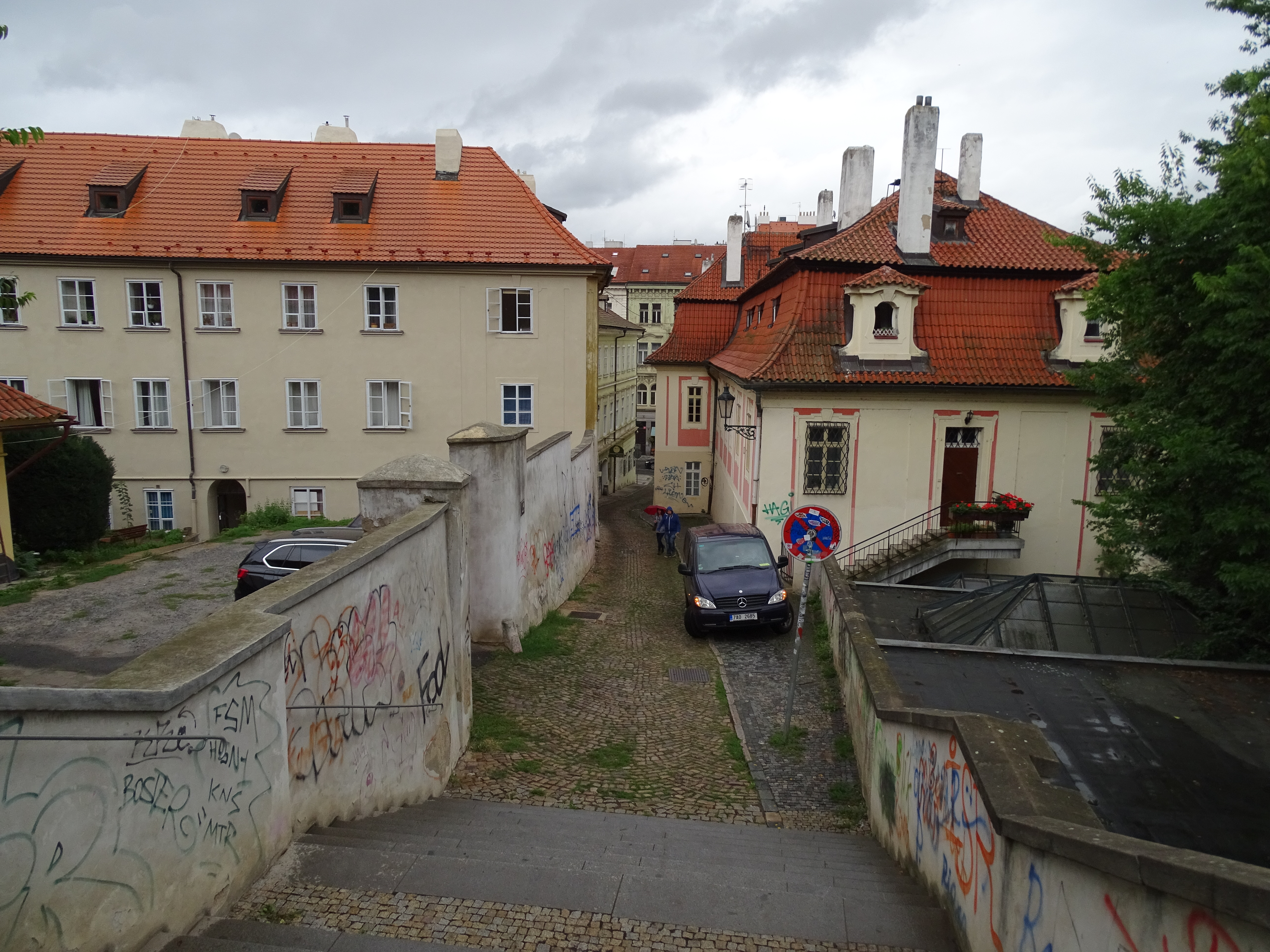 Prague-Malá Strana, Czech Republic. U lanové dráhy street.